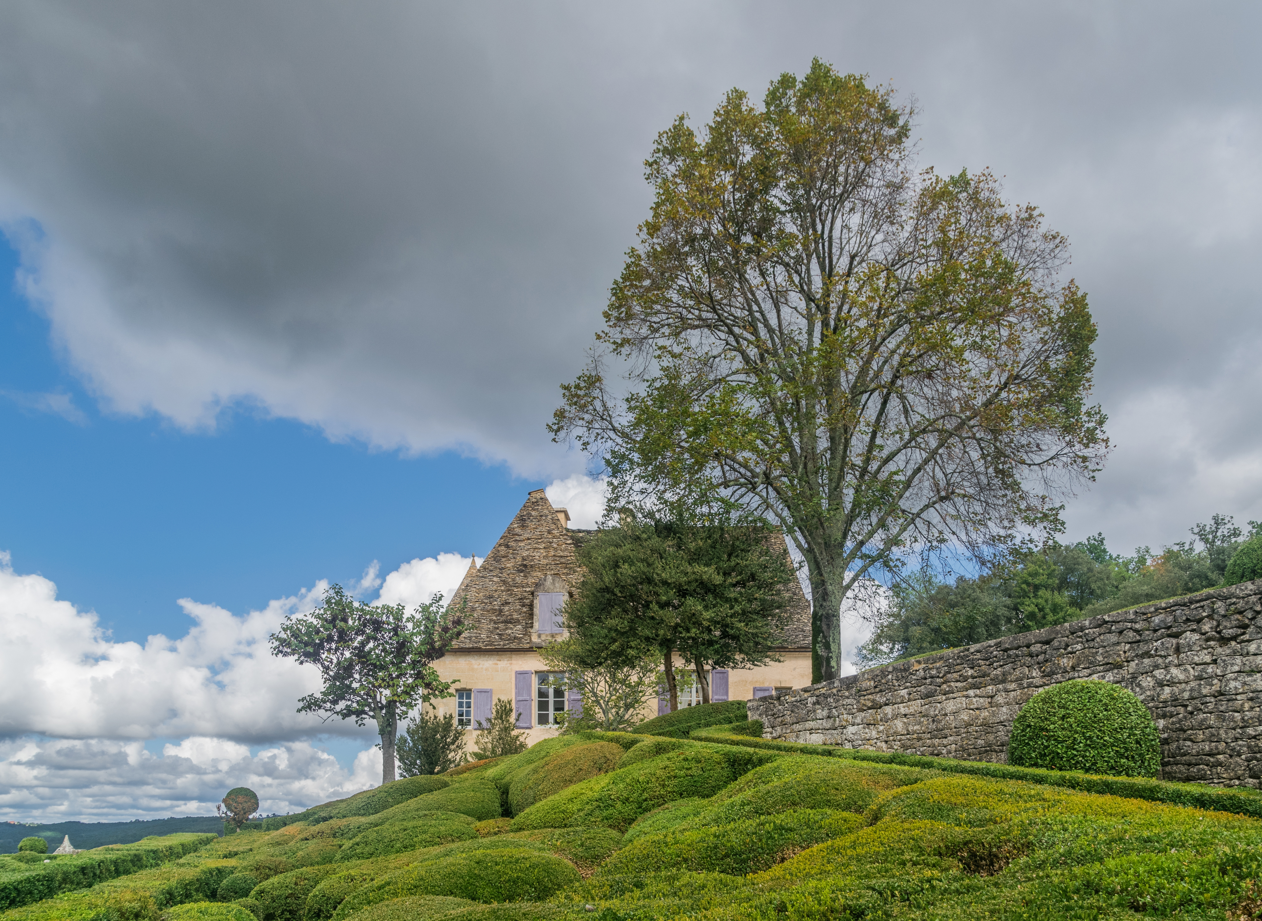 Castle of Marqueyssac, commune of Vézac, Dordogne, France .